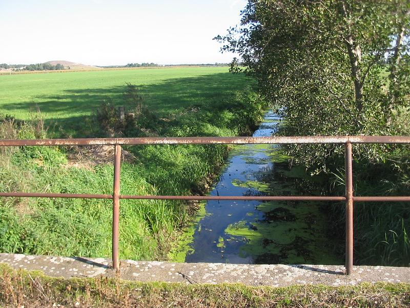 De-watering-canal in the „Baruther Urstromtal“ (glacial valley) nearby Neuendorf. The village Neuendorf is a part of the town Brück in the district Potsdam Mittelmark, state Brandenburg, Germany. The village is situated on the north border of the „Baruther Urstromtal“ subplateau Zauche.